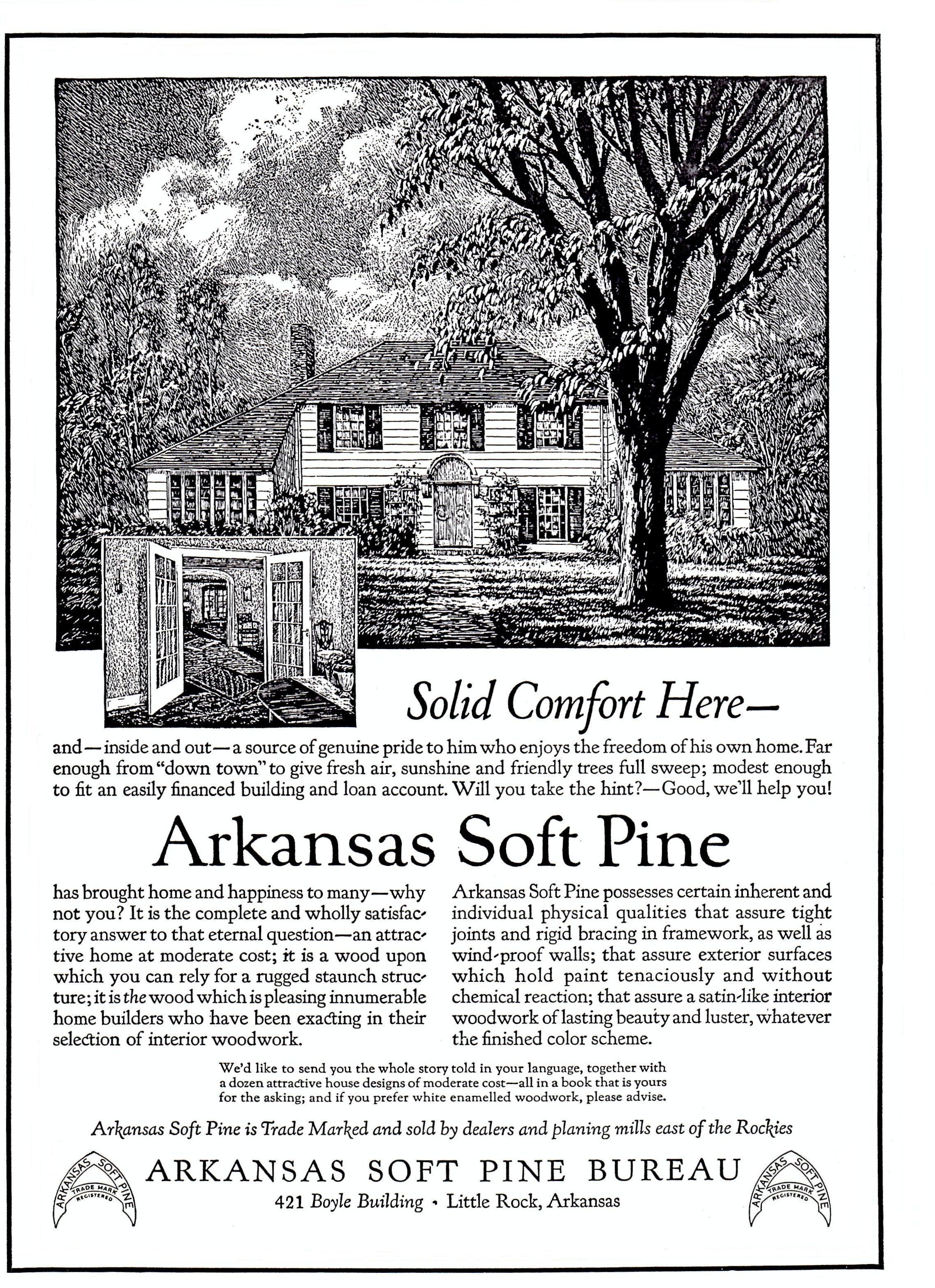 An advertisement of the Arkansas Soft Pine Bureau (defunct)showing the Alexander Stewart house in Highland Park, Il. designed by Robert Seyfarth